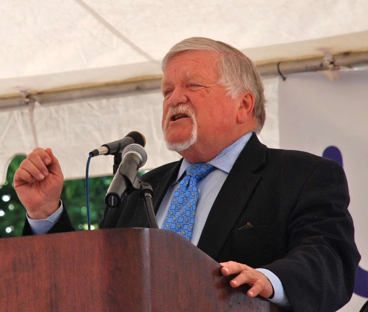 Tom Hughes, president of the Metro Council, speaking at the opening ceremony (held at OMSI) for the Portland Streetcar's eastside line, in Portland, Oregon, in 2012.